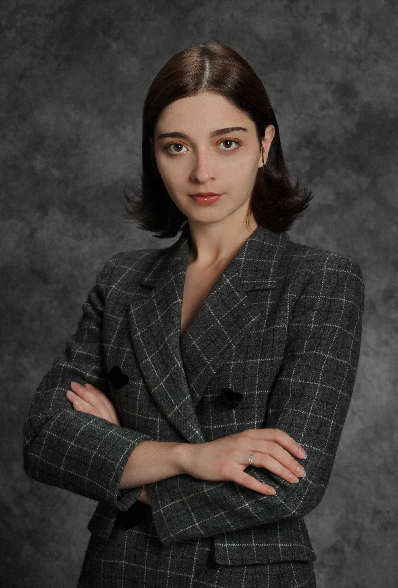 Portrait of artist Amalia Ulman